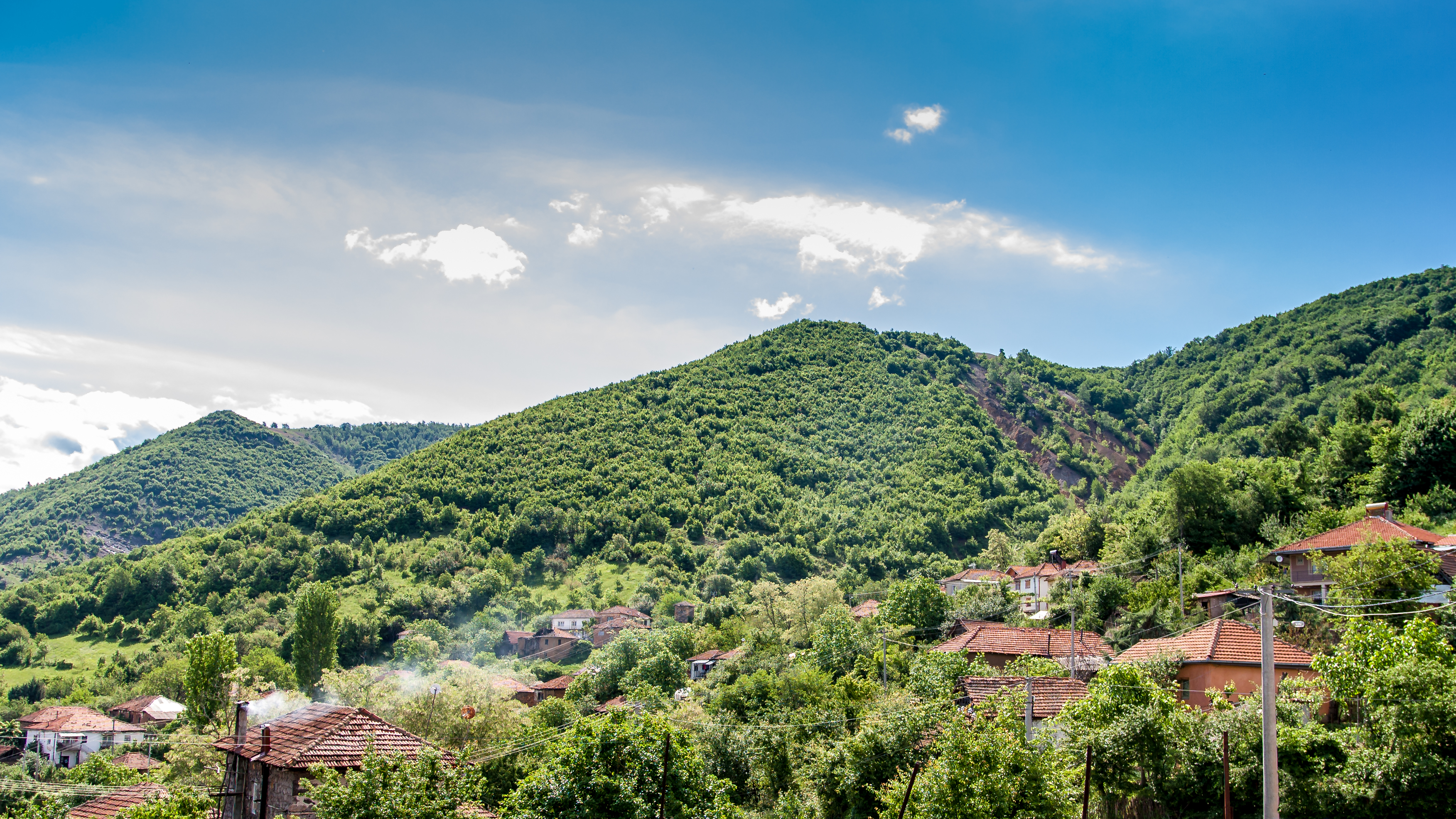 Panoramic view of the village Prikovci